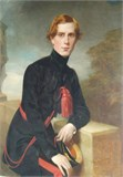 Photograph of a portrait of Alexander Ross Clarke painted when he was about 22.